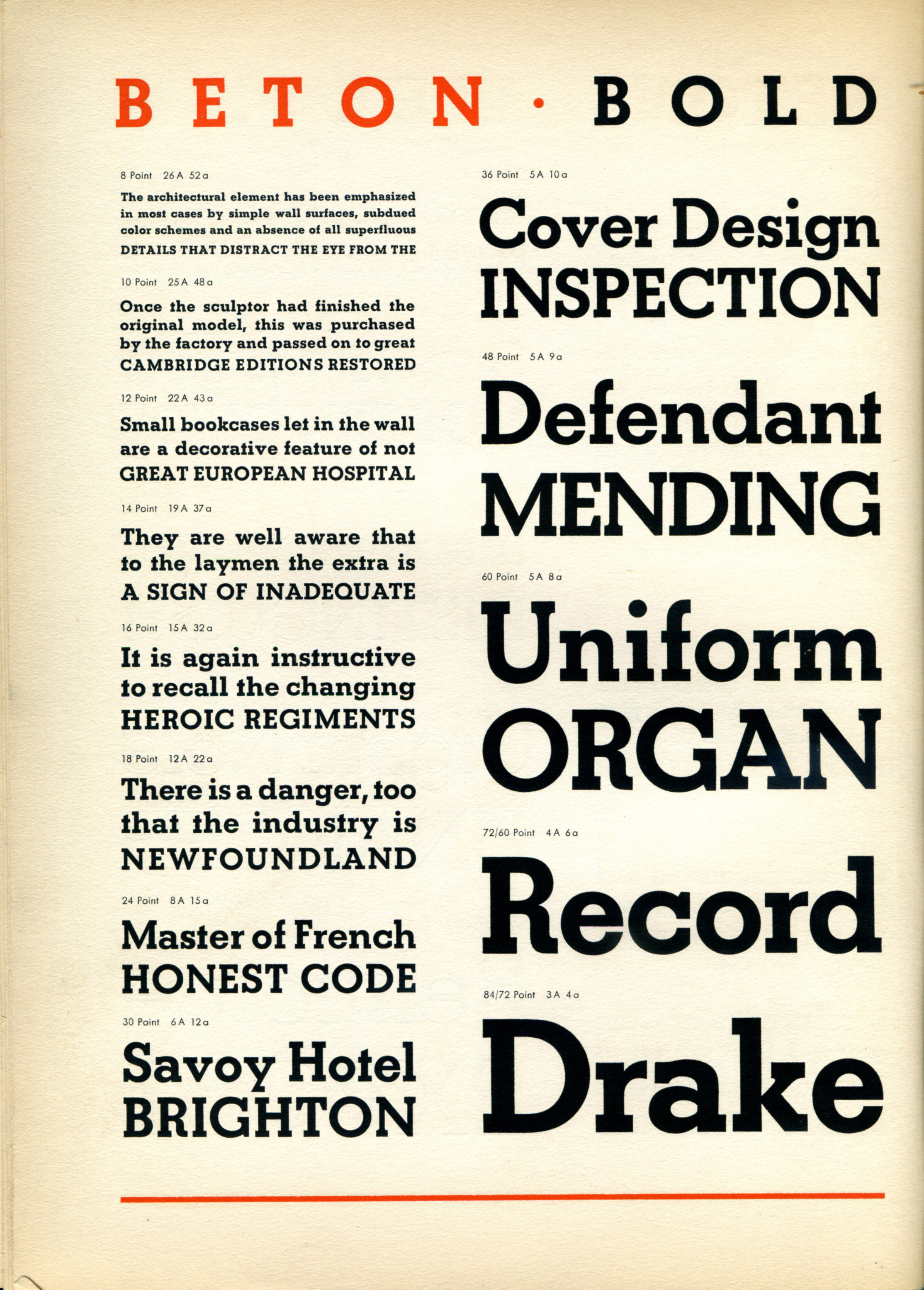 Beton Bold type specimen